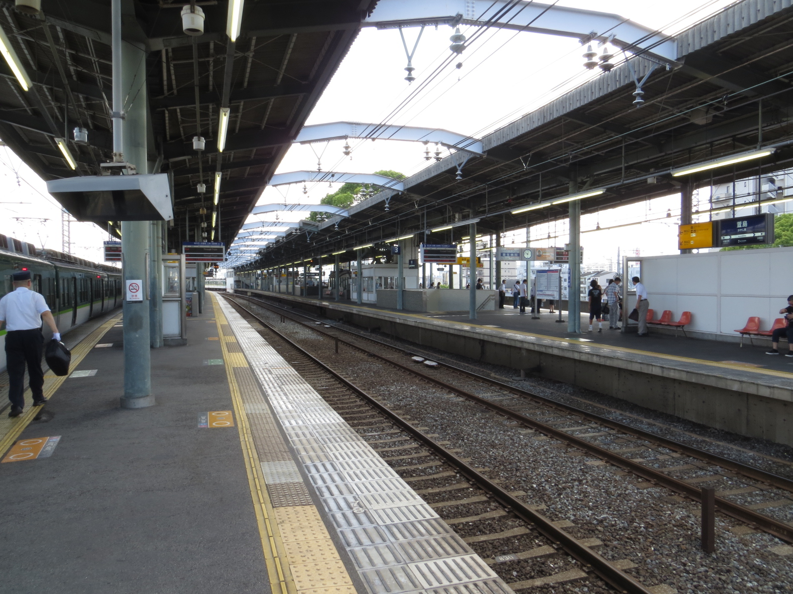 Platform from Kayashima Station (Keihan Main Line).